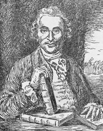 James Lind (1715-1794), Scottish doctor, portrait. Pen drawing from a portrait by Sir George Chalmers.